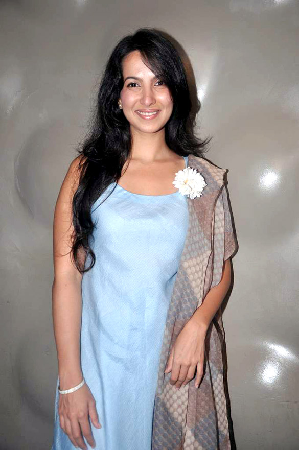 Shraddha Nigam at the Press meet of 'Lakme Fashion Week 2012'